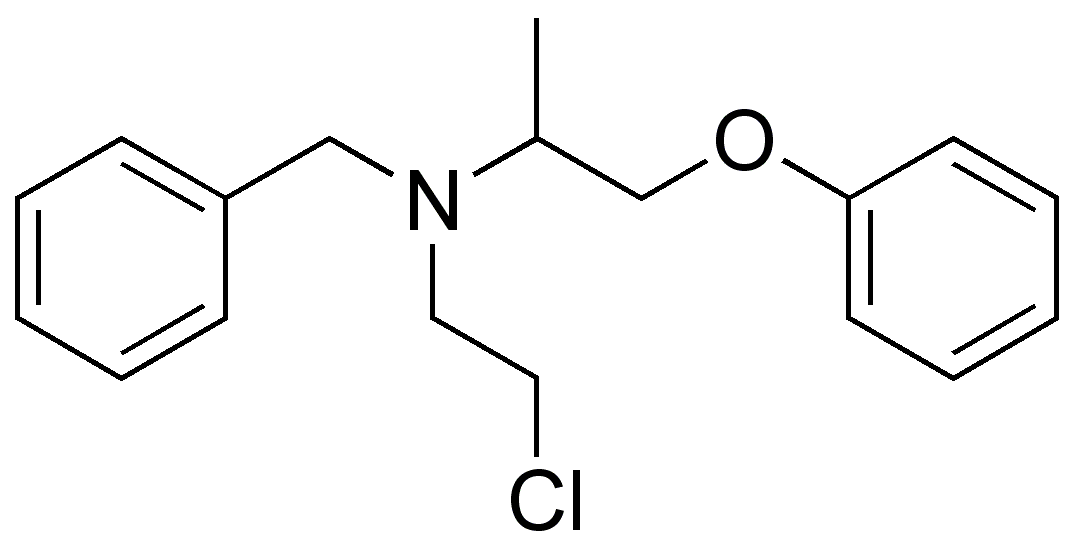 Structure of Phenoxybenzamine an adrenergic receptor antagostic